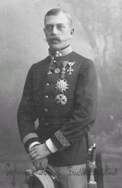 Archduke Joseph Ferdinand Salvator of Austria-Tuscany 1872-1942, Colonel General of Imperial-Royal Army, 1916-1918 General Inspector of K.u.K. Air Force, son of Grand Duke Ferdinand IV of Tuscany